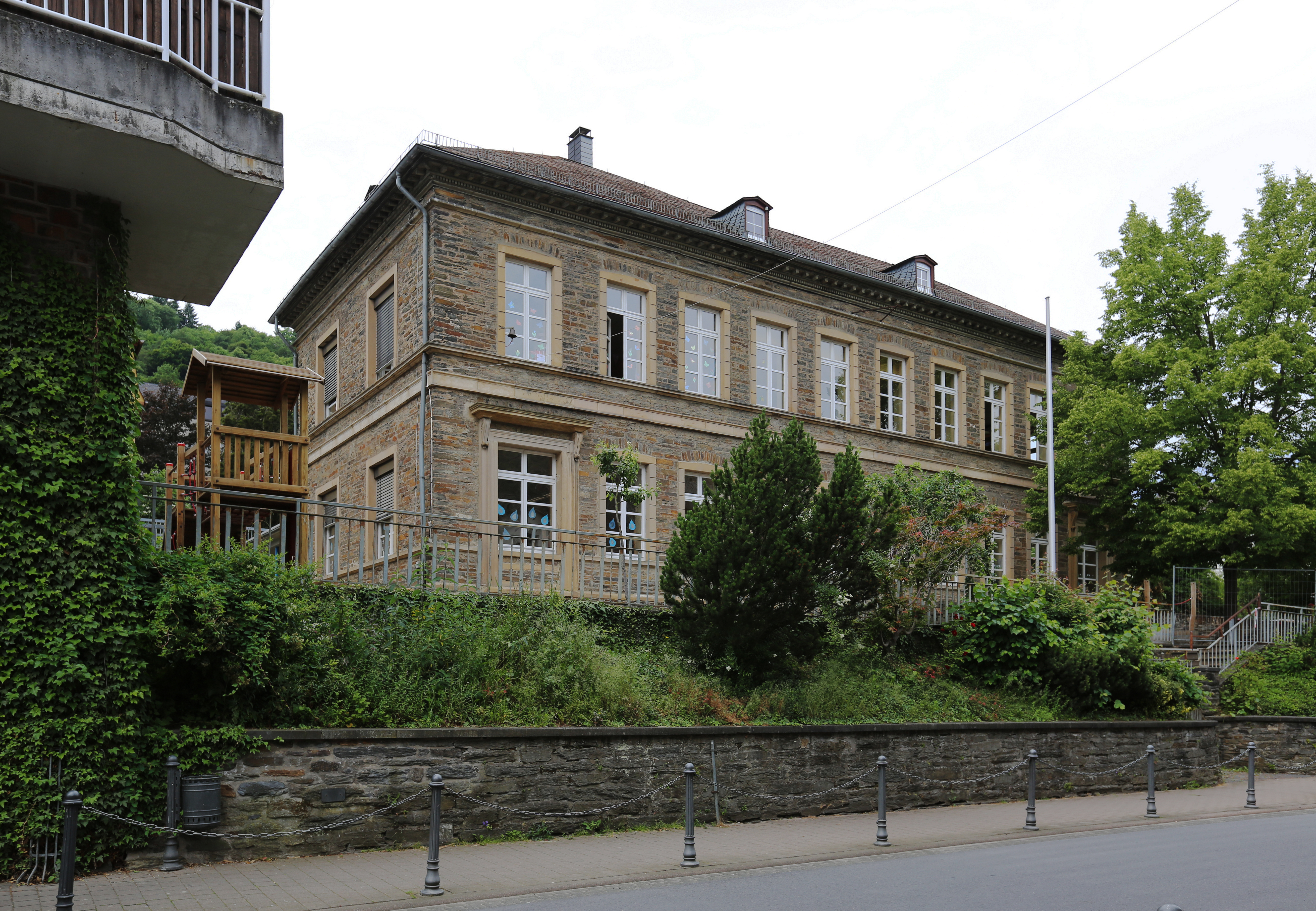 Cultural heritage monuments in Oberwesel, Rhine Valley/Germany